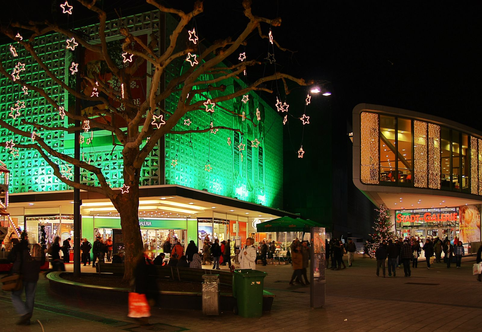 Christmas market of Heilbronn, buildings: on the right side "Stadt-Galerie" (shopping center), on the left "Galeria Kaufhof" (big store)